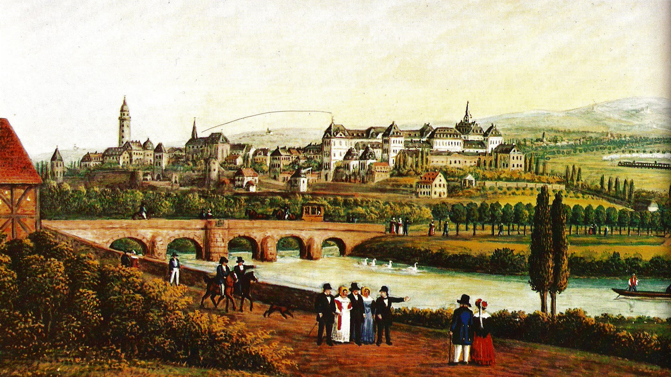 Old bridge of Nied, in the background Höchst and Taunus railroad